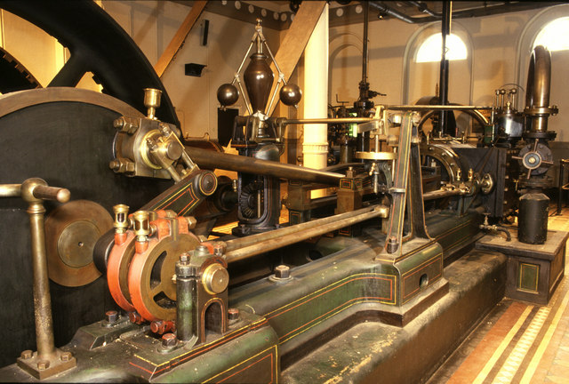 Steam engine, Greenall Whitley Brewery This brewery had a stupendous power house. This is one of two Thornewill and Warham engines built 1884 and now preserved at Markham Grange Steam Museum. There was also a Davey, Paxman/Linde refrigeration compressor. A unique machine in the UK. Its current location is unknown. The Brewery has now been converted to offices.